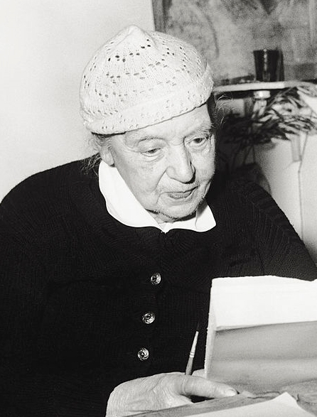 The Russian painter Rimma Brailowsky reading a book with a young priest. Rome, 1950s